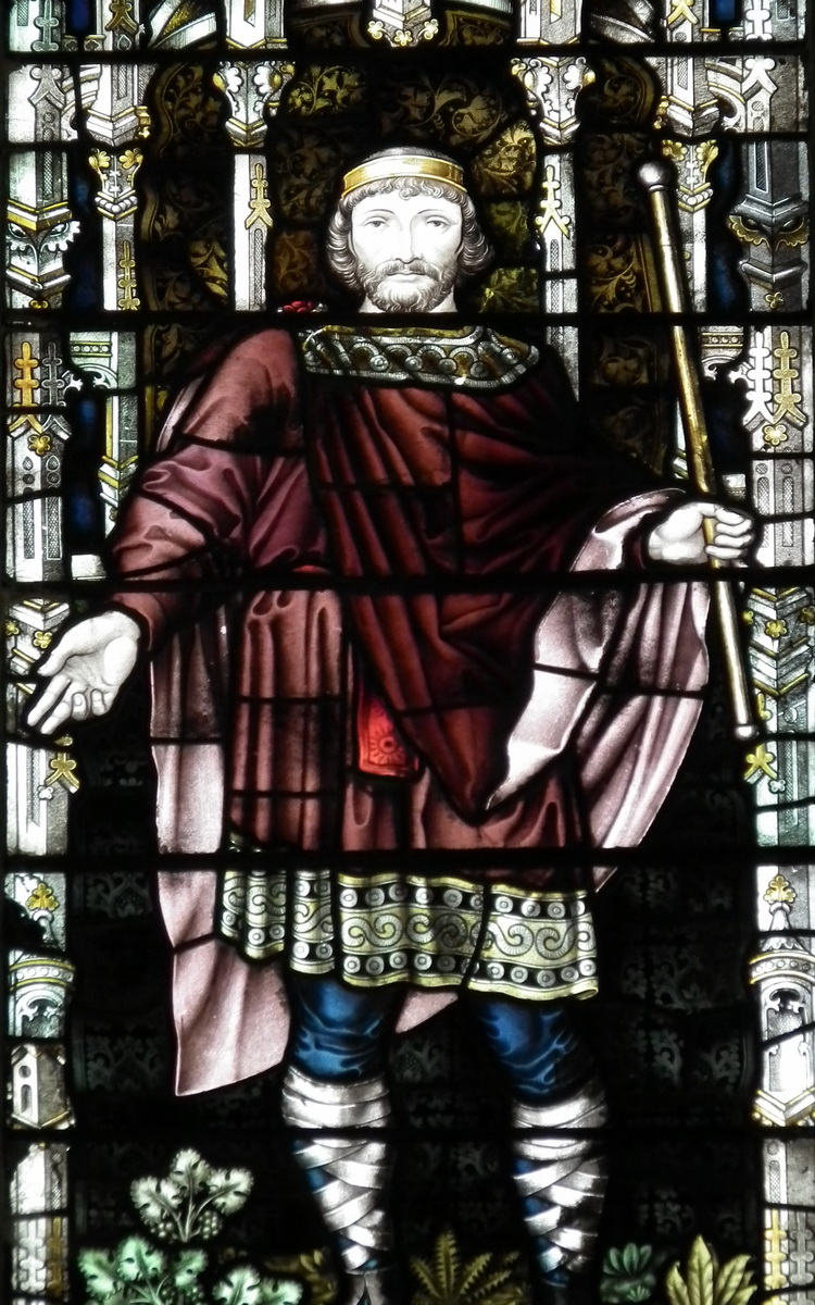 Stained glass windows in the Chapter house, Canterbury Cathedral, Canterbury, England